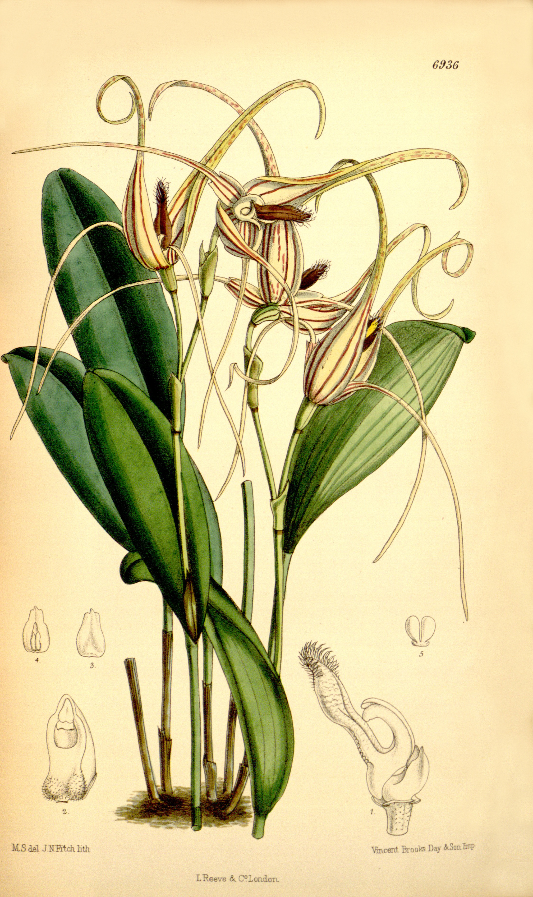 Illustration of Pleurothallis glossopogon (as syn. Pleurothallis insignis)